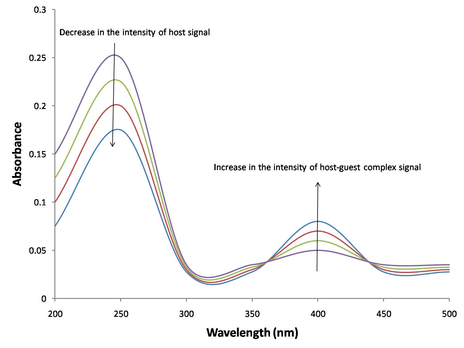 Changes in UV-vis spectrum as a host binds to a guest